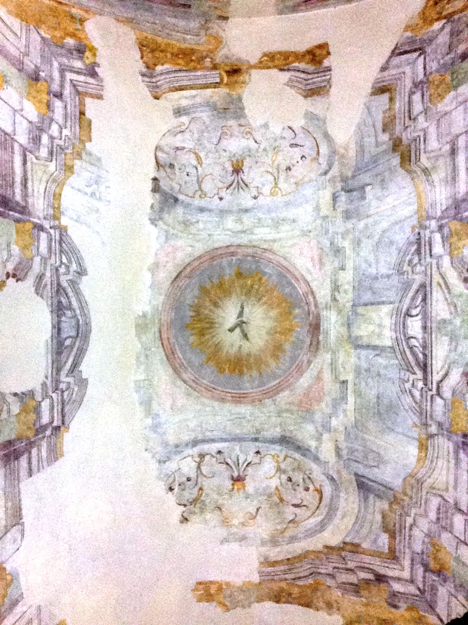 Volta settecentesca della Sagrestia della parrocchia di San Giovanni Battista di Striano (Napoli)